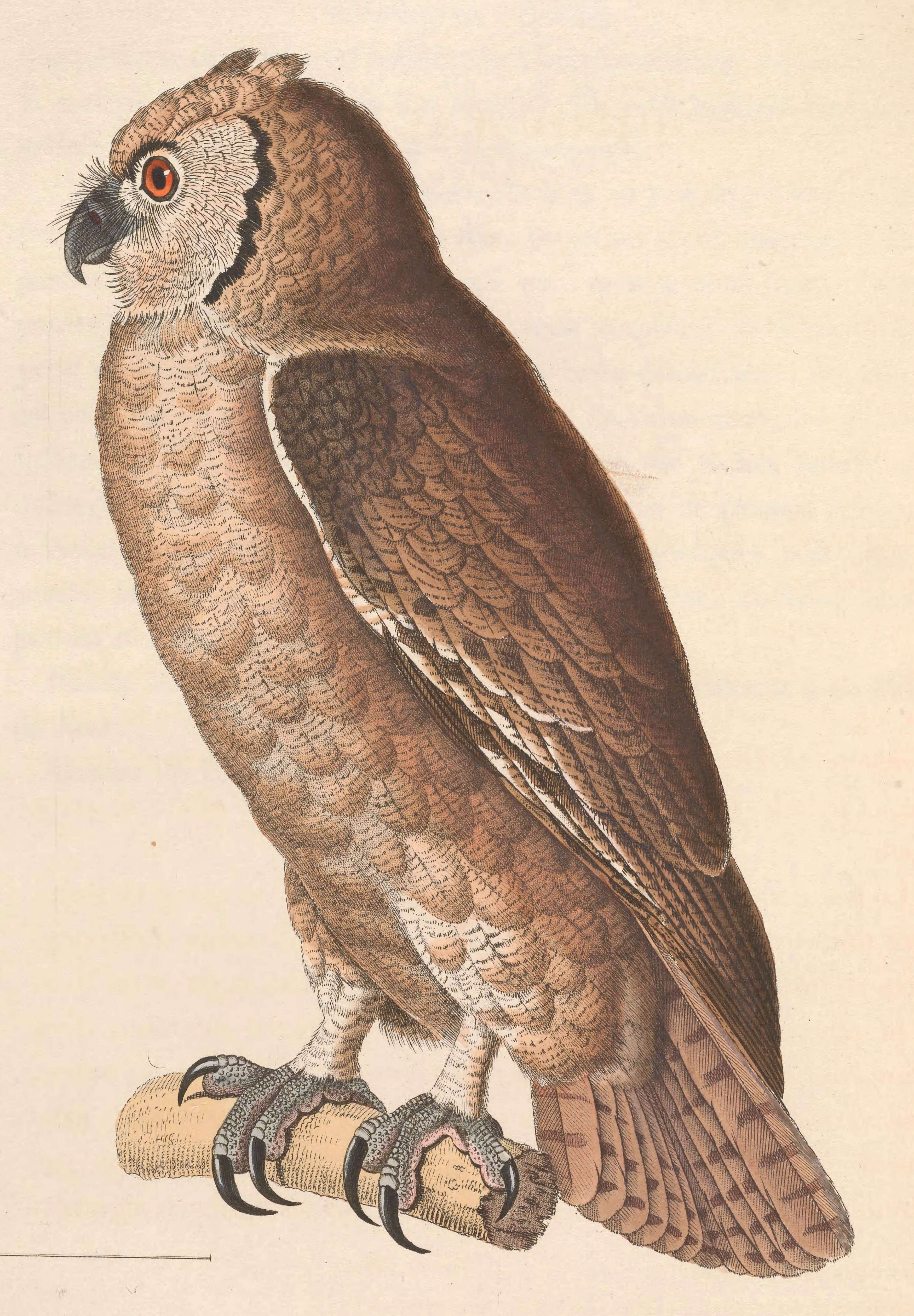 « Strix lactea » = Bubo lacteus (Verreaux's Eagle-Owl)